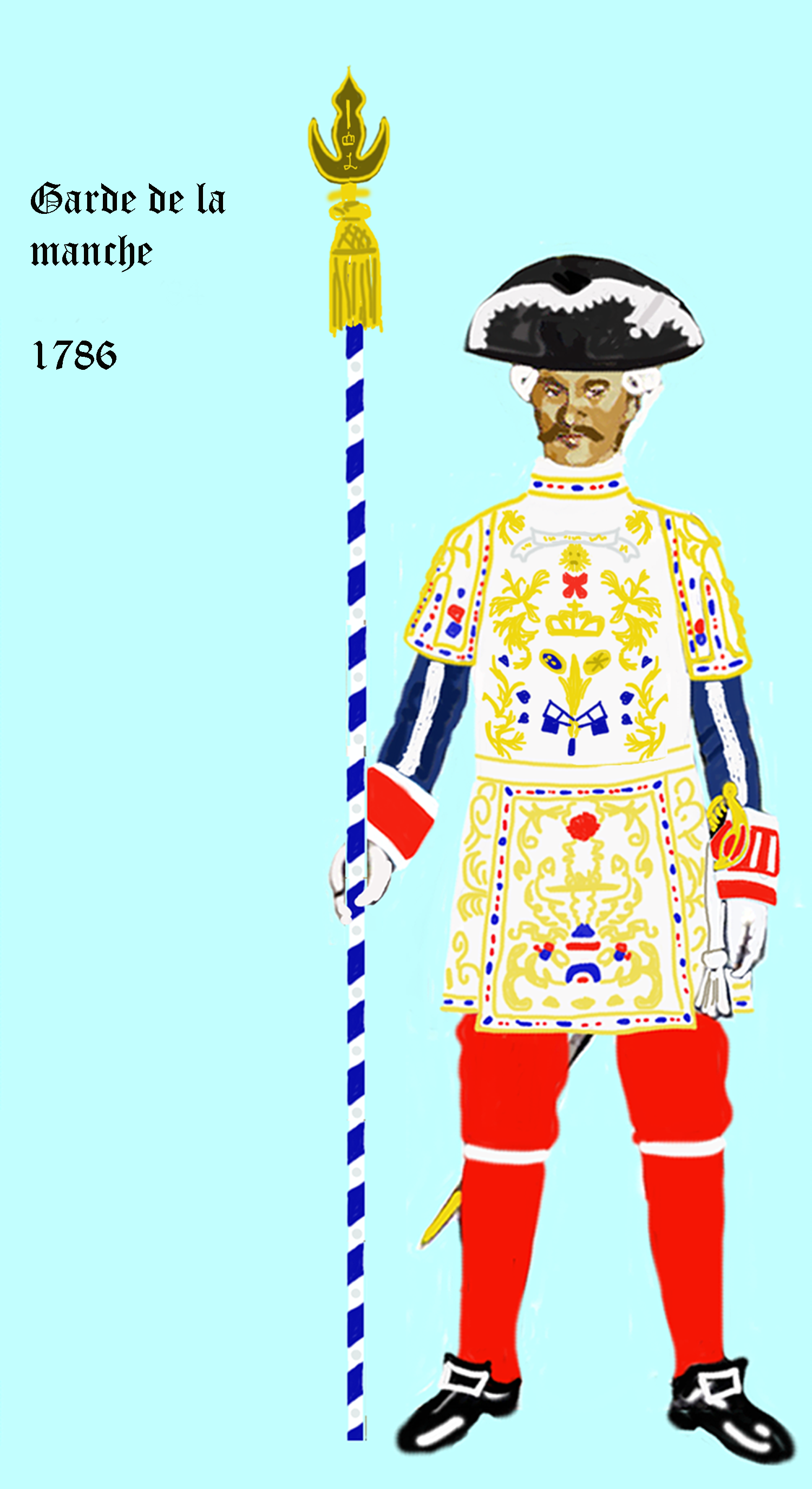 Royal french Garde de la Manche in grand uniform